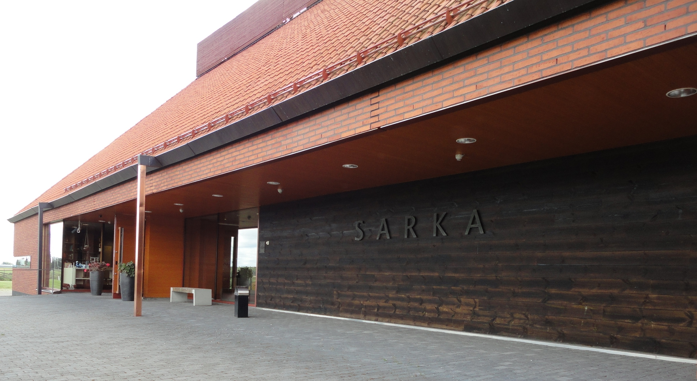 Farming museum, Sarka, Finland.